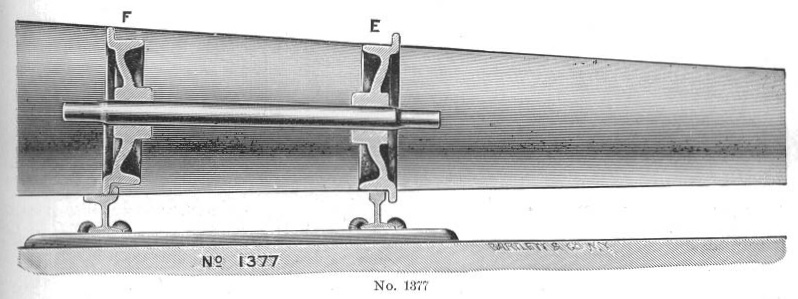 C. W. Hunt, Catalogue No 038 page 48, bound for Harry Hildebrand in 1905.